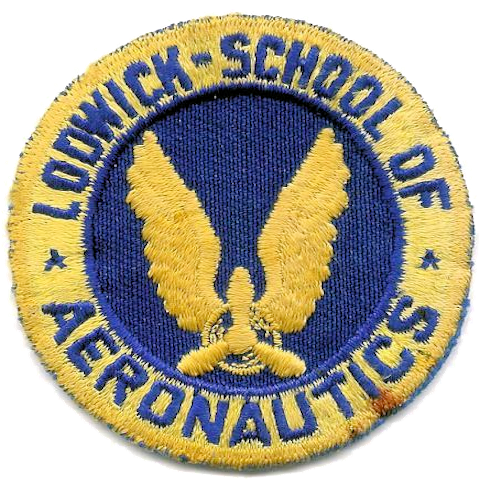 Emblem of the 61st Army Air Force Flight Training Detachment, Avon Park Airport, Florida (World War II)